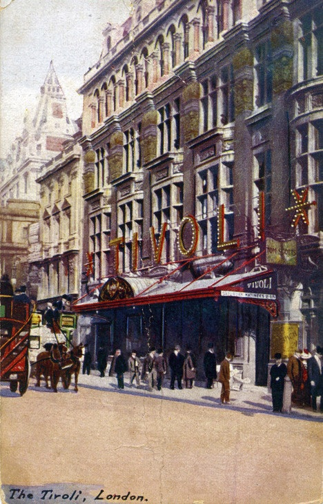 Exterior painting of the Tivoli Music Hall in The Strand, London, in 1910.